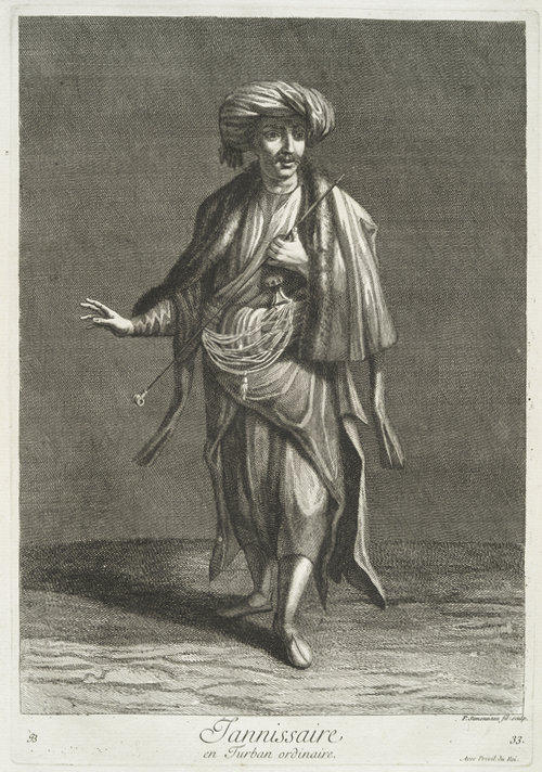 Illustrations of Ottomans by Jean-Baptiste Vanmour, 1707